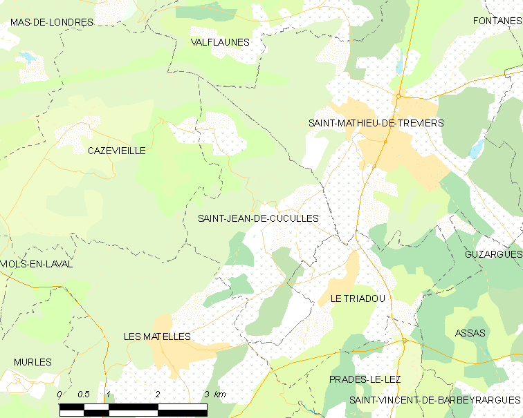 Map commune FR insee code 34266.png - Saint-Jean-de-Cuculles